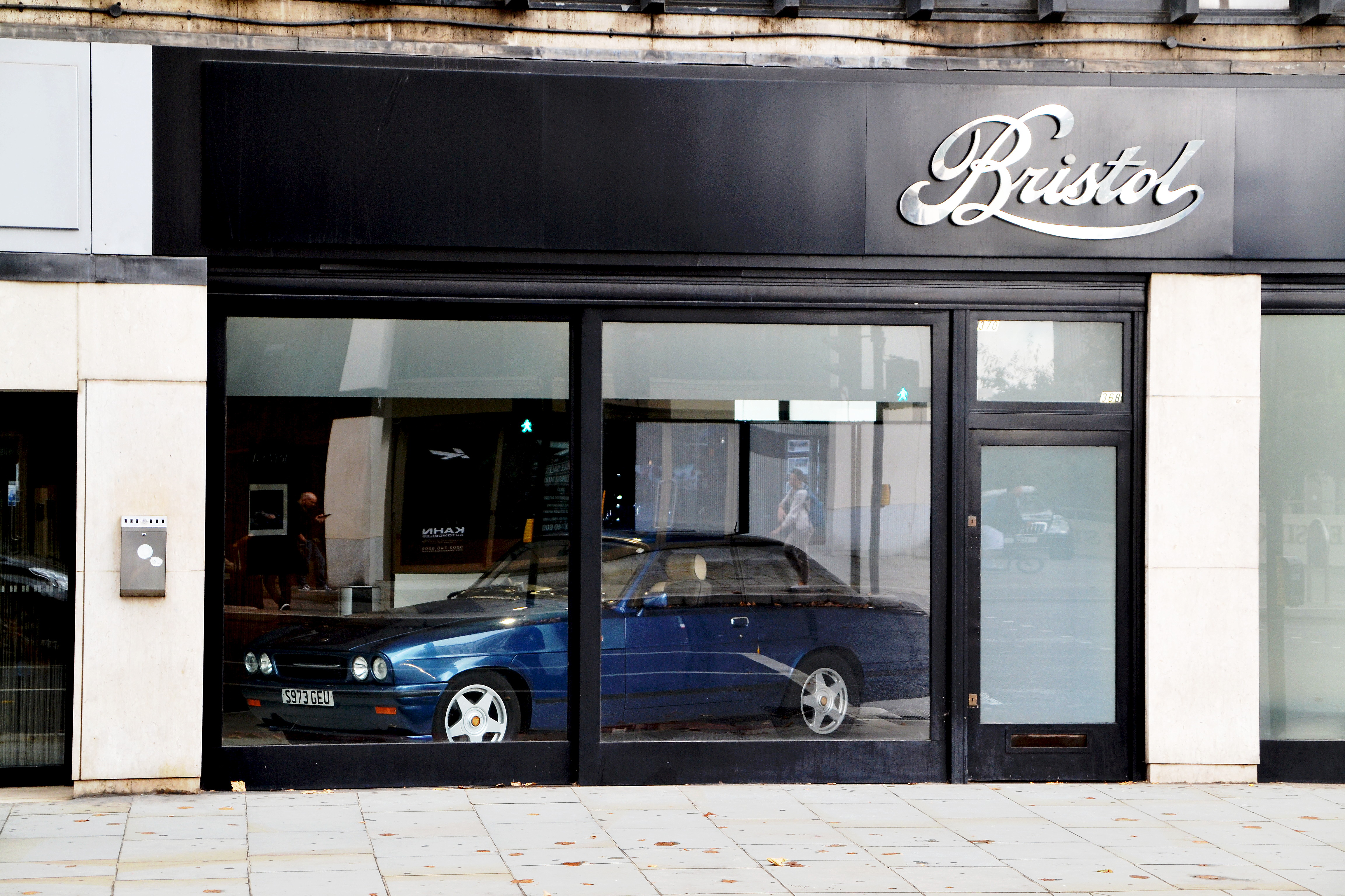 Bristol Cars: Showroom in Kensington High Street, London, in July 2019. Inside: a 1998 Bristol Blenheim 2